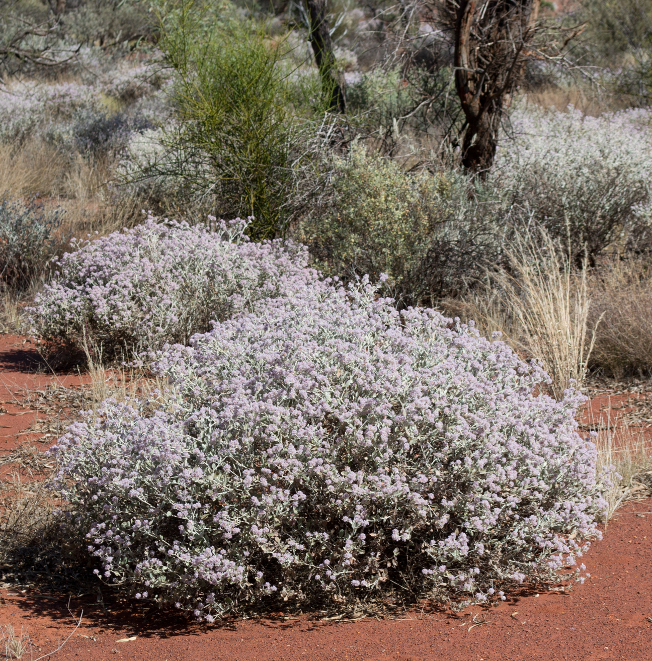 Ptilotus obovatus (Gaudich.) F.Muell. on the Great Northern Highway, Western Australia